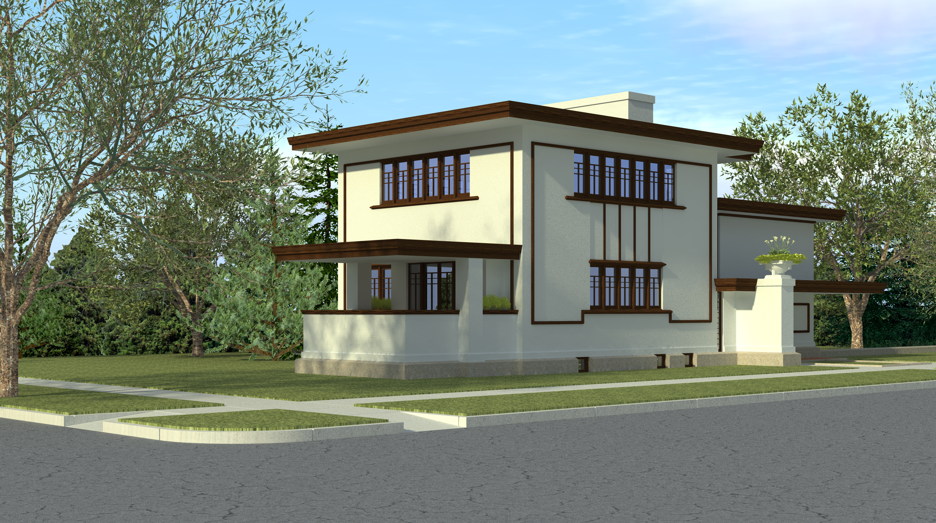 Digital reconstruction of the Wynant House (1916) by Frank lloyd Wright in Gary, Indiana. This house is the only known construction of plan D101 from Wright's Amercian System Built Homes. The house was largely destroyed in a 2006 but the ruins still stand. This scene was modeled in Google SketchUp 7 and rendered with Artlantis Studio 2.1